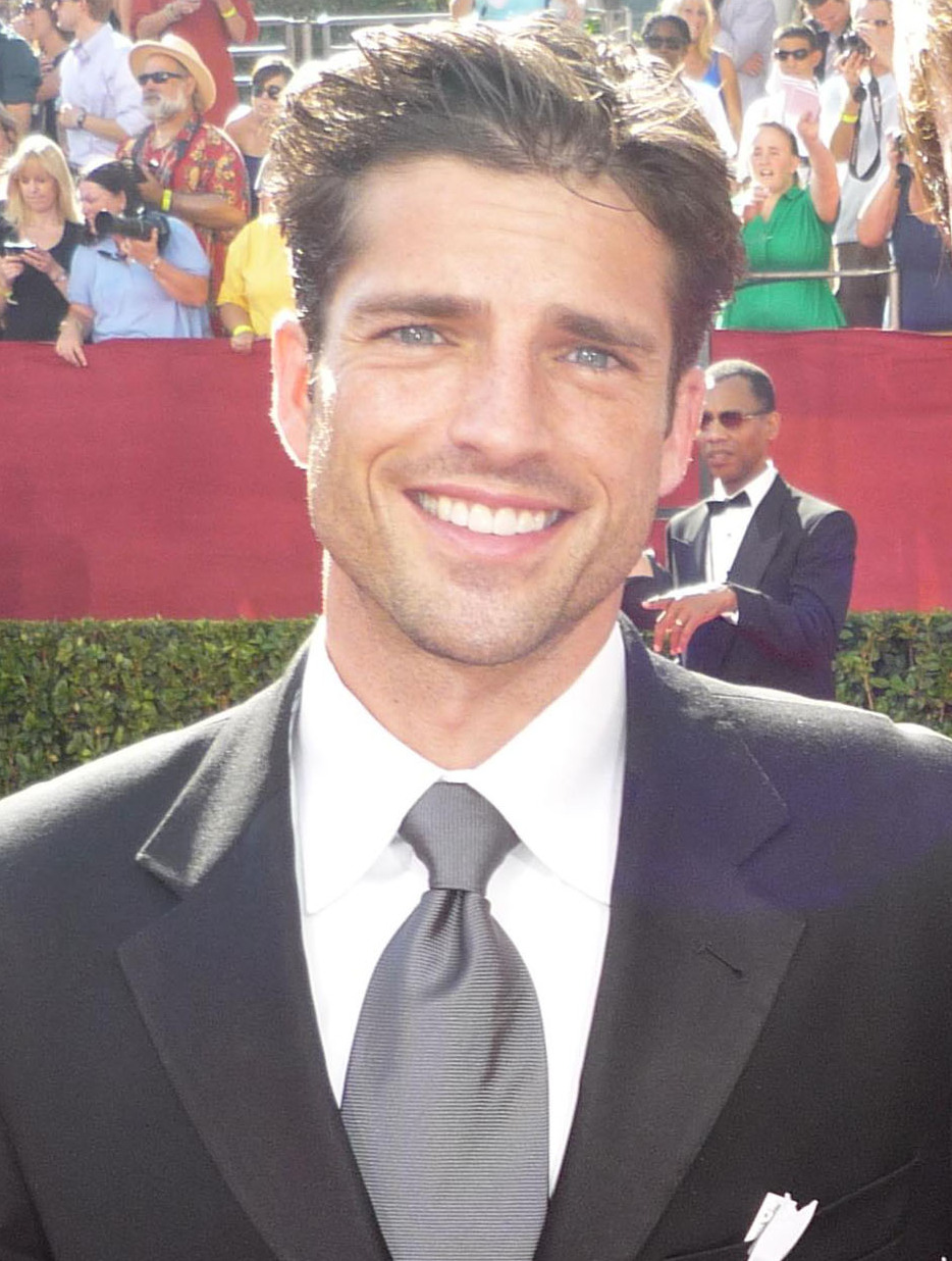 Actor Scott Bailey at the 2009 Primetime Emmy Awards.